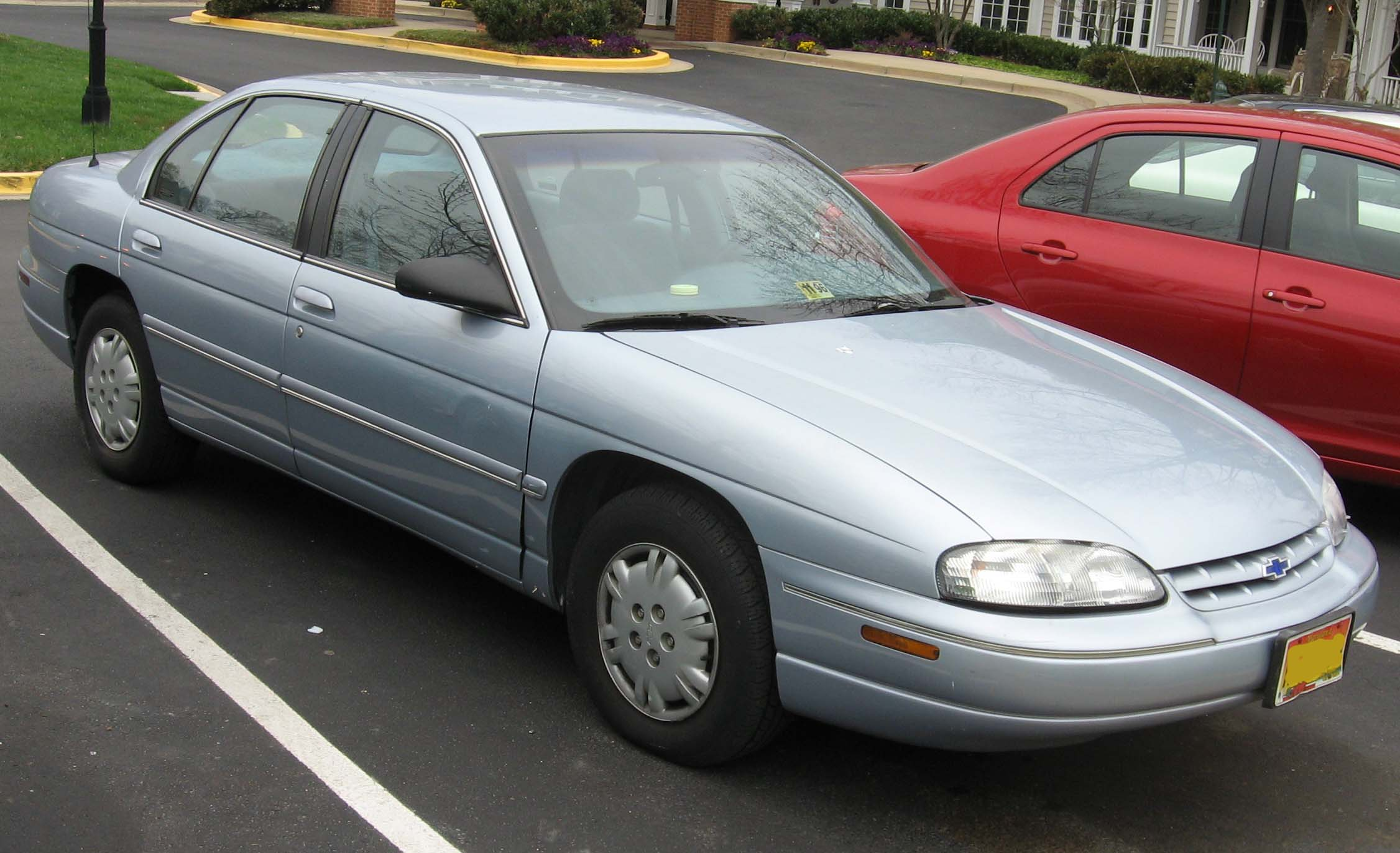 1995-2001 Chevrolet Lumina photographed in USA.